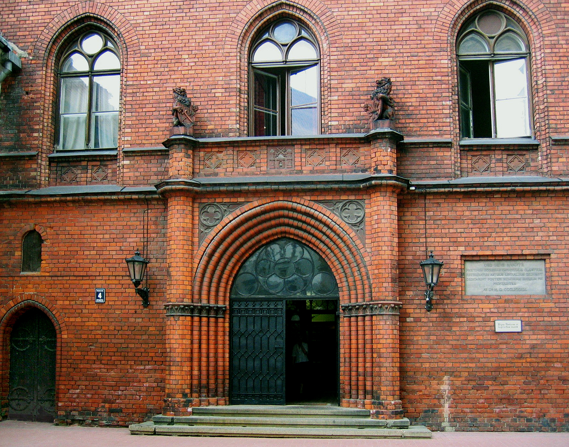 Riga town museum